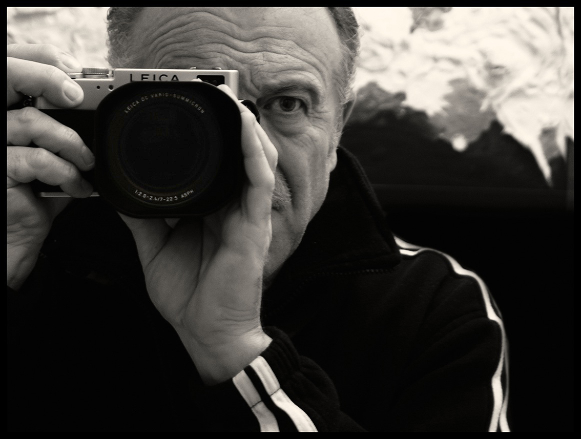 Augusto De Luca photographer with Leica Digilux 2